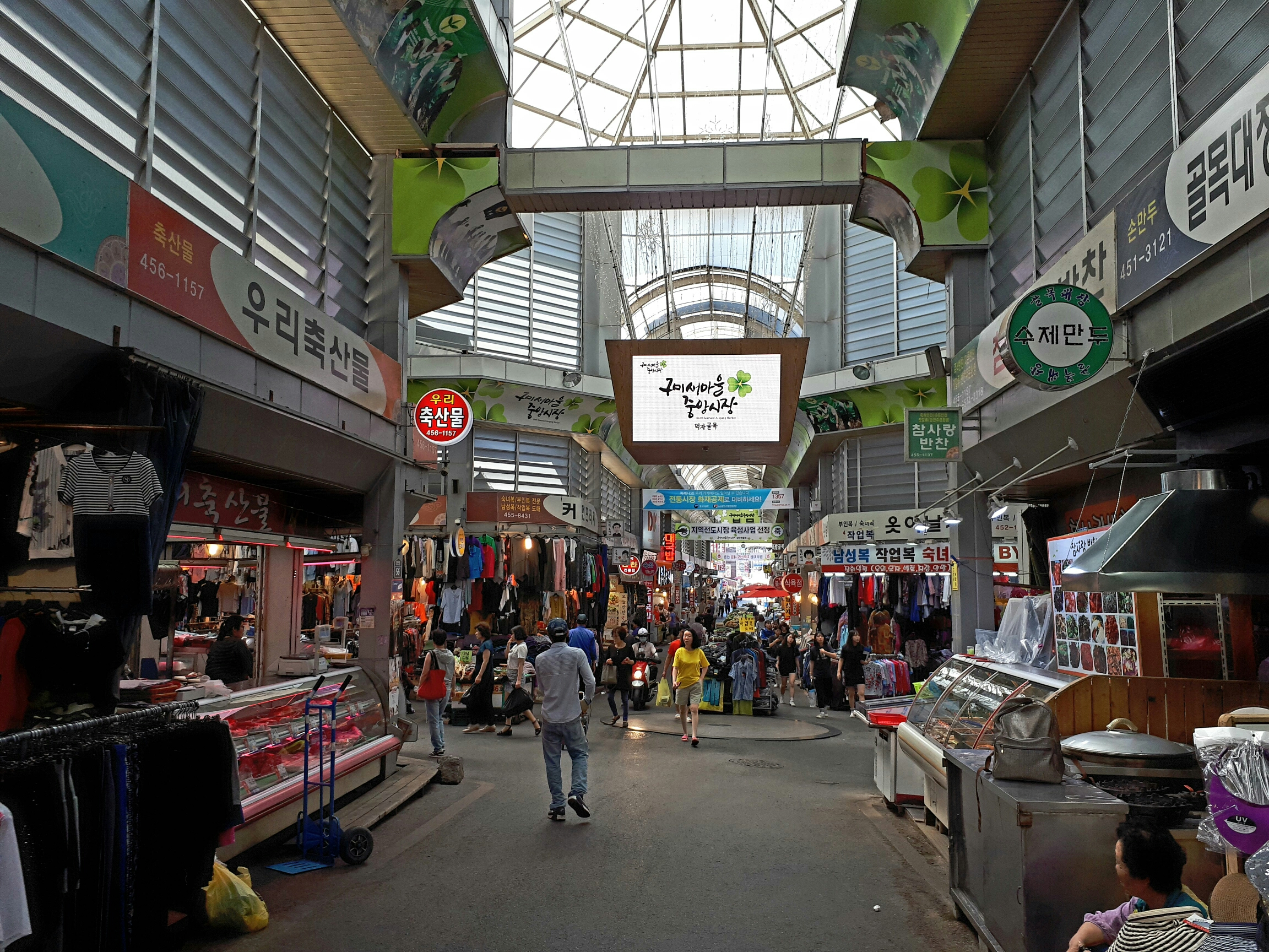 Gumi jungang market. One of the biggest traditional marketplace in Gumi.